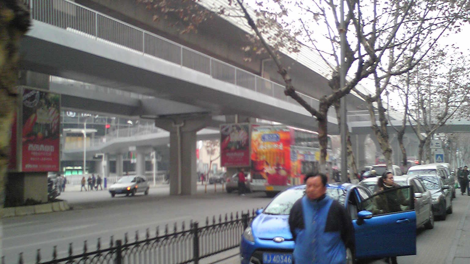 Wuhan Metro Line 1 Lijibeilu Station